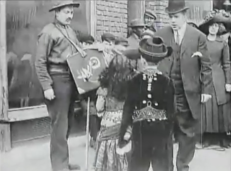 A capture from The Actor's Children. This scene shows the Italian organ grinder, the two children and the theater manager. The organ grinder enticed and then forced the children to dance. The theater manager comes and rescues the children.